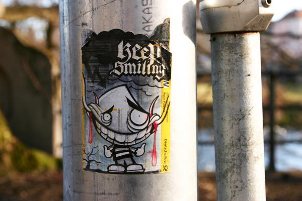 Hand-drawn sticker in Munich